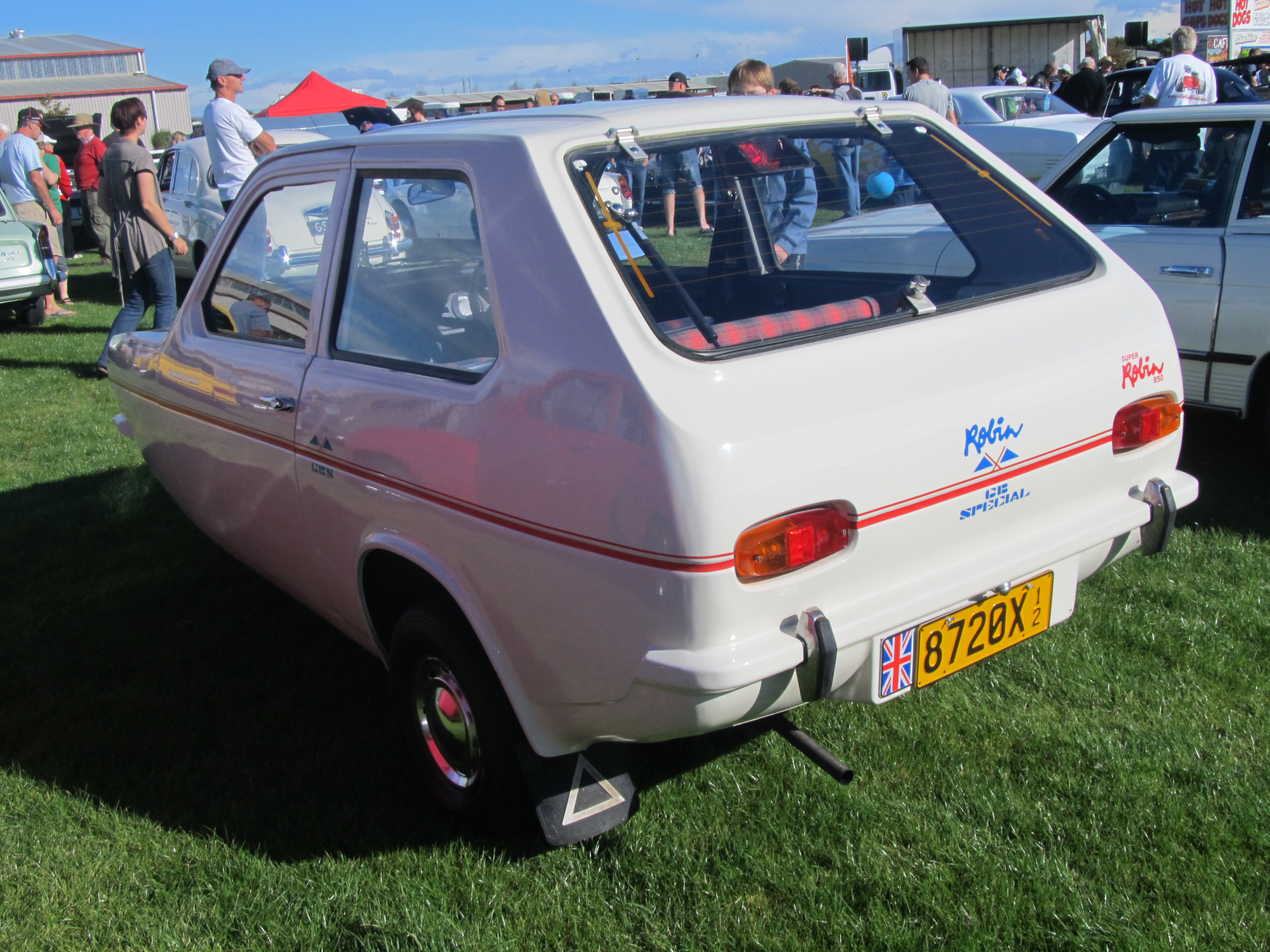 R ROBIN A rear view of this mint condition Robin I posted last month! I'd absolutely love a go in this, passenger or driver... I'd imagine these need concentration when driving, with only three wheels!